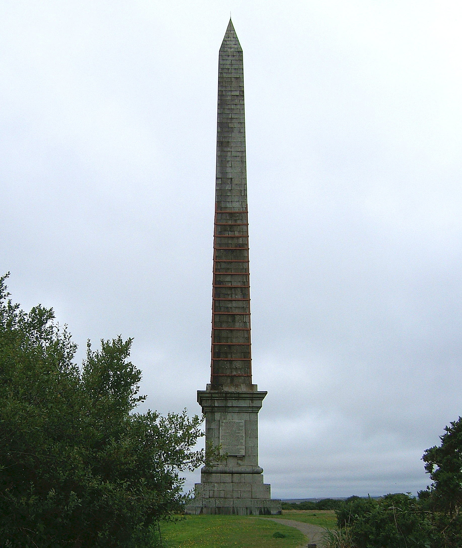 This column was erected in 1857 on the highest point in Bodmin, Cornwall, England, by his fellow townspeople in recognition of his success in the India wars.